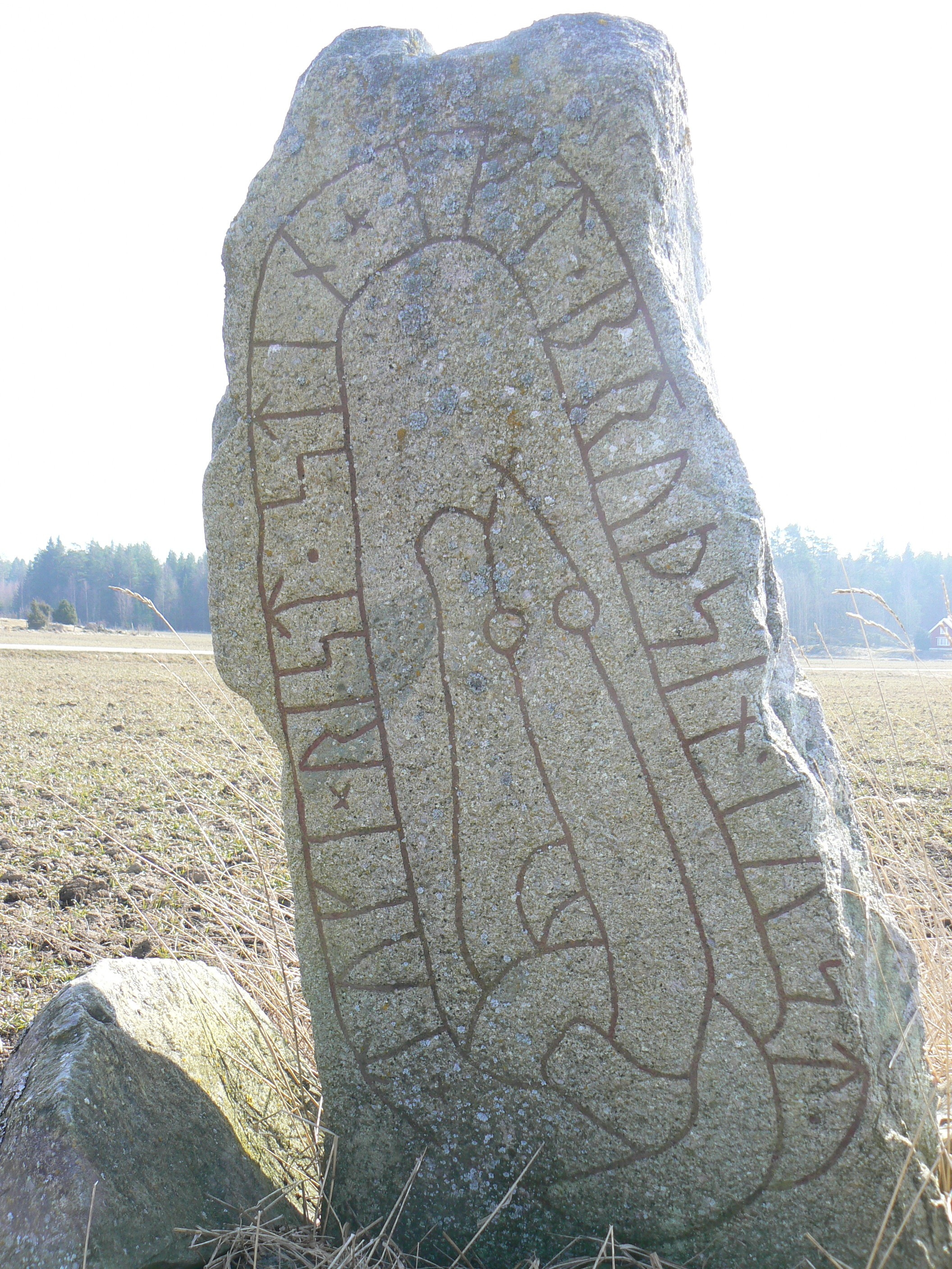 Östergötlands runinskrifter 189, runestone outside Vikingstad in Östergötland, Sweden.